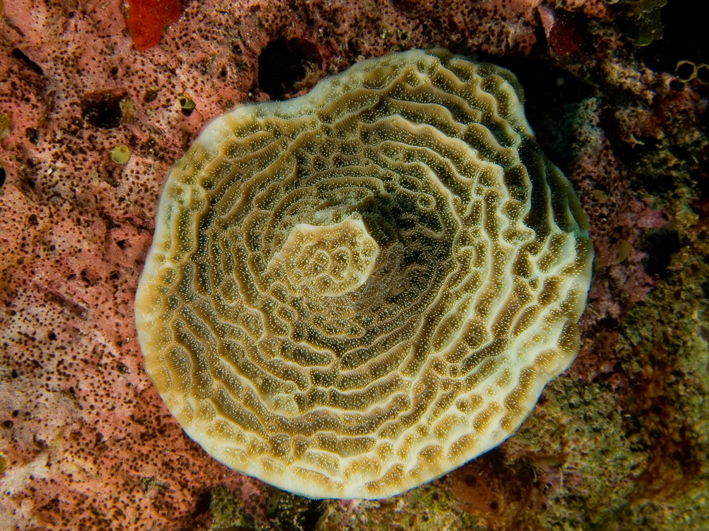 Agaricia fragilis (Fragile Saucer Coral)